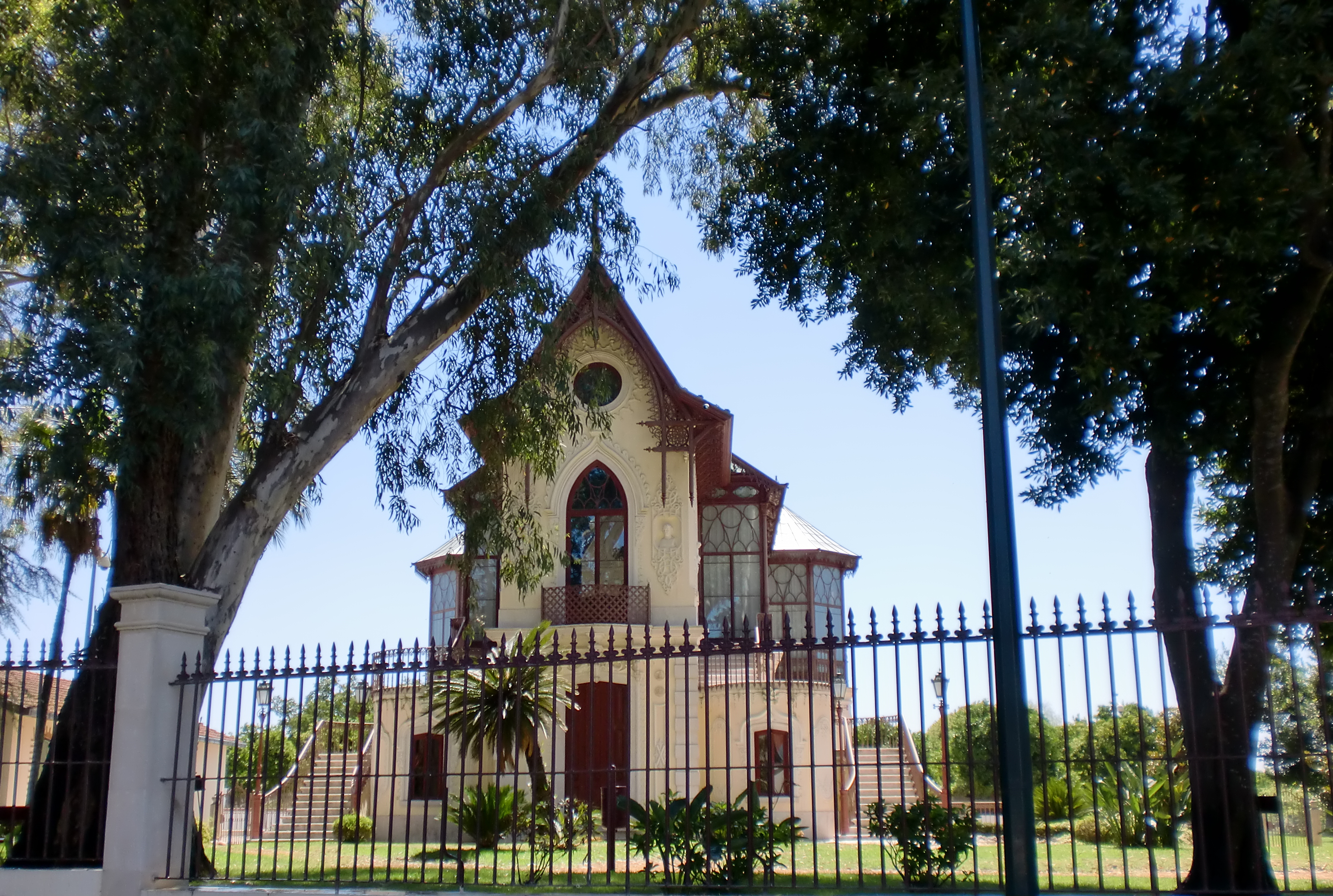 Carlos Relvas' House of Photography in Golegã, Portugal. The house, with influences from Romanticism period (see Gothic Revival architecture), parcially covered with Revival architectural elements and containing a total of 33.636 kg og iron, had its construction initiated in 1872. The architect was Henrique Carlos Afonso of Lisbon.